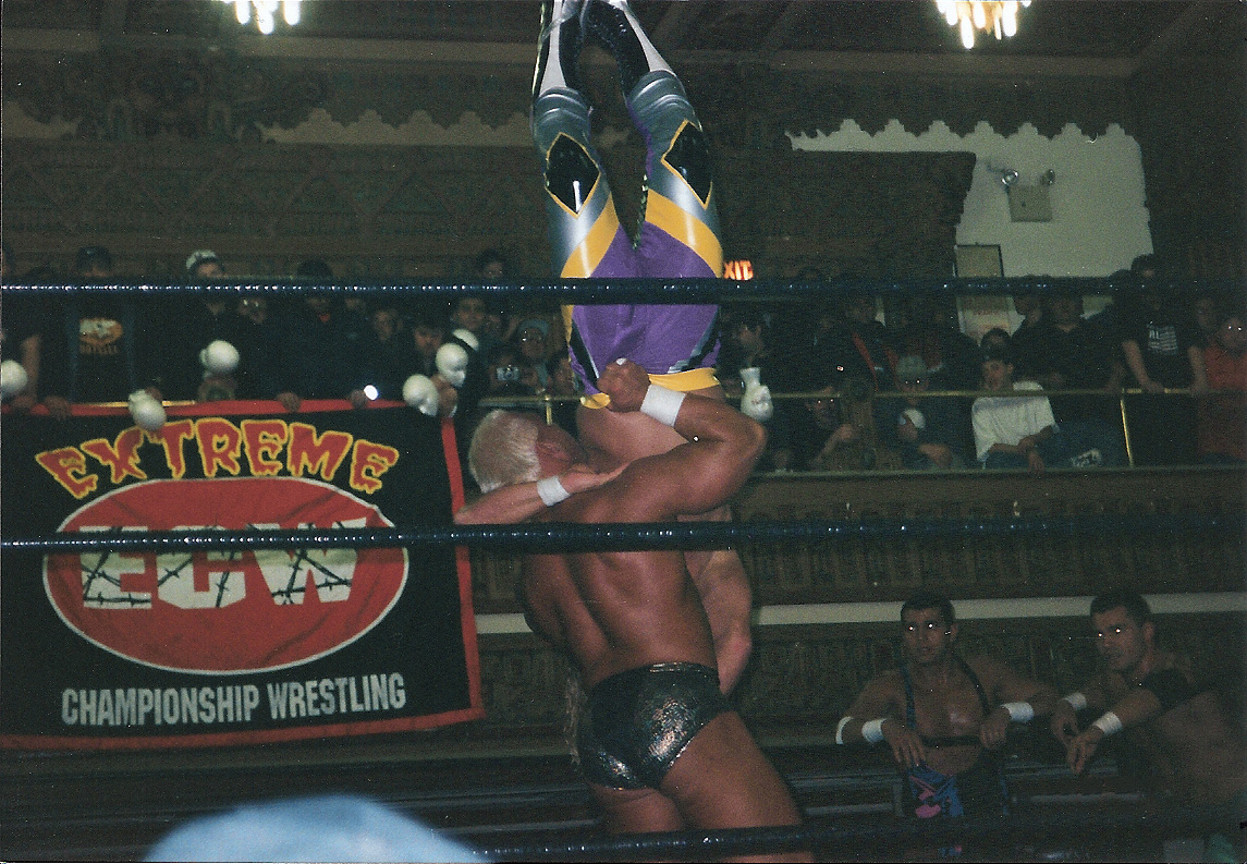 ECW @ Elks Lodge in Queens - March 13, 1998 Chris Chetti and Lance Storm Look On